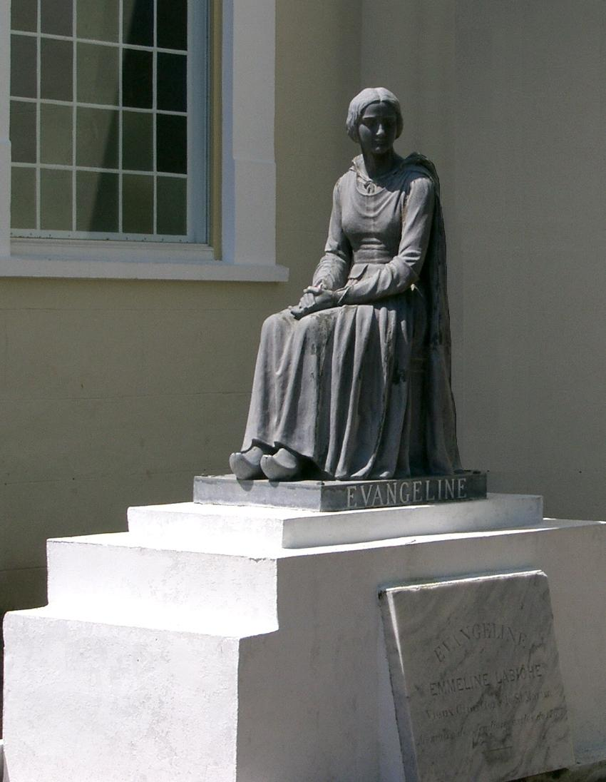 Statue of Evangeline in St. Martinville, Louisiana [photo trimmed to remove gutter pipe].